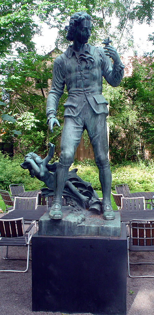 Statue of Carolus Linnaeus by Carl Eldh in the Linnaean garden in Uppsala